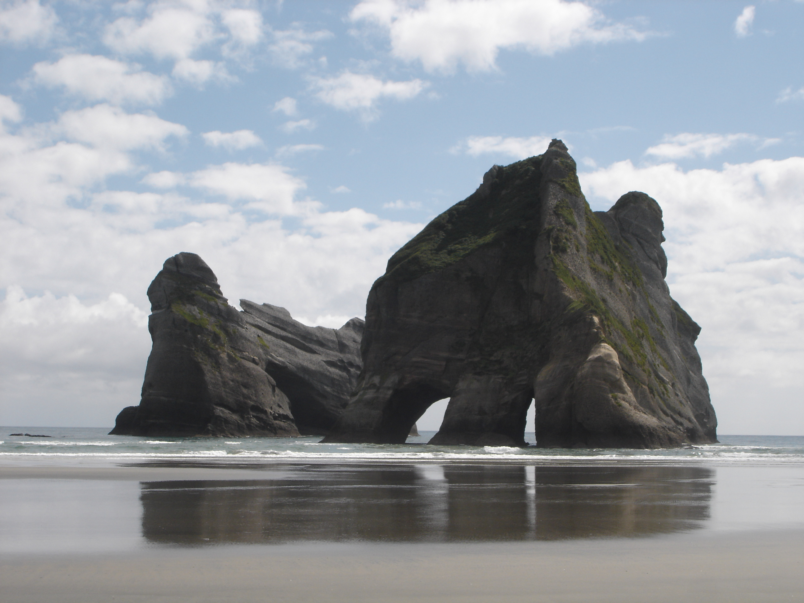 Archway Islands seen from Wharariki Beach, South Island, New Zealand